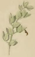 Stainton’s Natural History of the Tineina (1855–1873): Coleophora discordella sprig of Lotus corniculatus with case attached